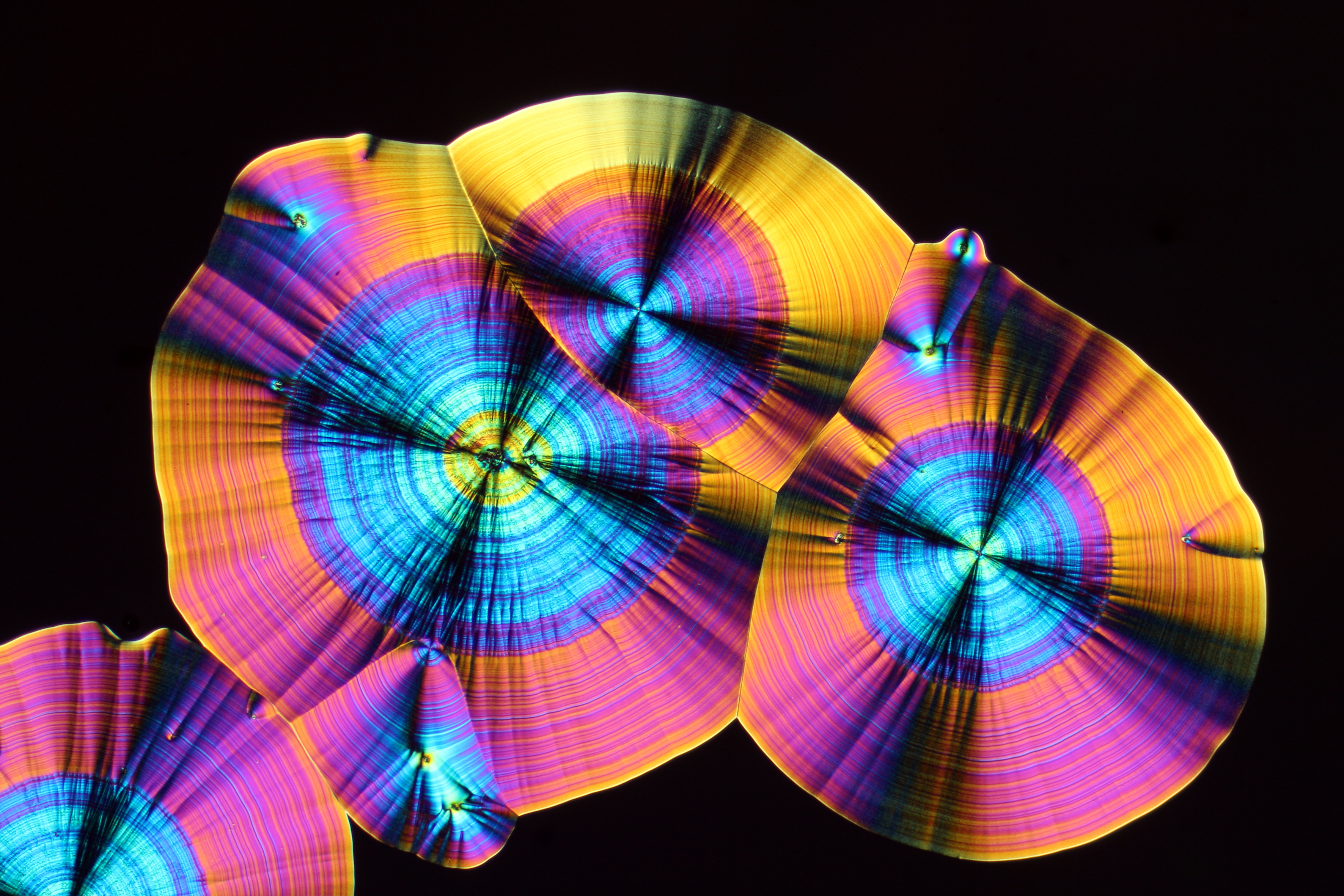 Microcrystals of Ascorbic Acid in cross-polarized light illumination . The microcrystals have anisotropy (birefringence). The microcrystals were grown on the slide. Light microscopy, transmitted light, total magnification - 125x.